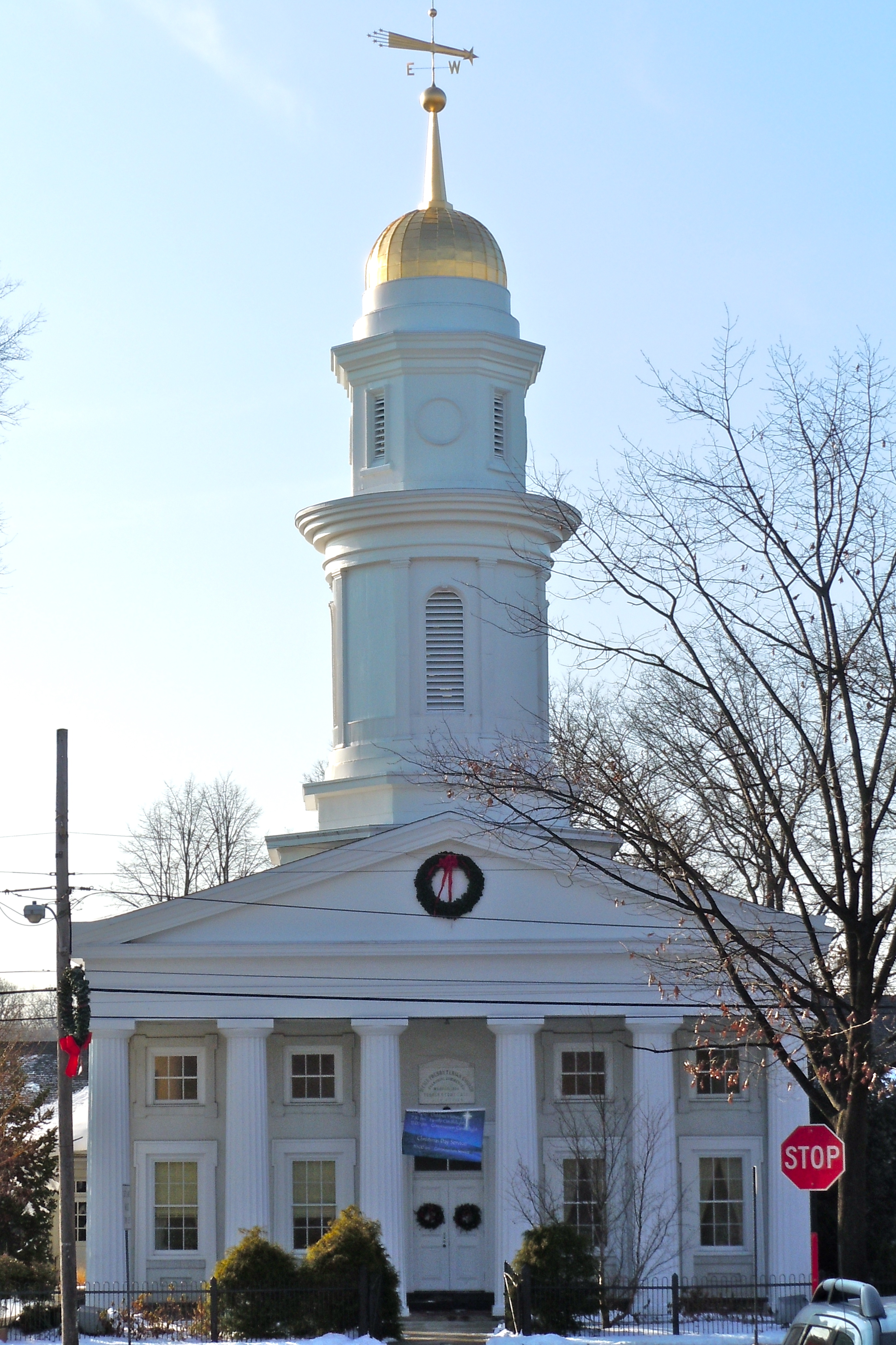 Media Presbyterian Church in Media Pennsylvania. Datestone above door says "Preaching commenced 1850." Note the weather vane on top of the cupola.